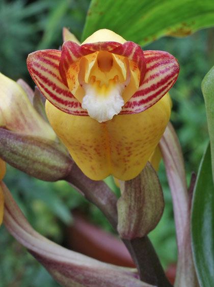 Acanthephippium_mantinianum